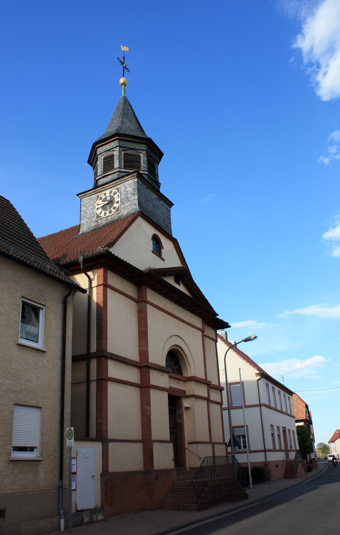 Saint Anthony Catholic Church, Herxheimweyher, Rhineland-Palatinate